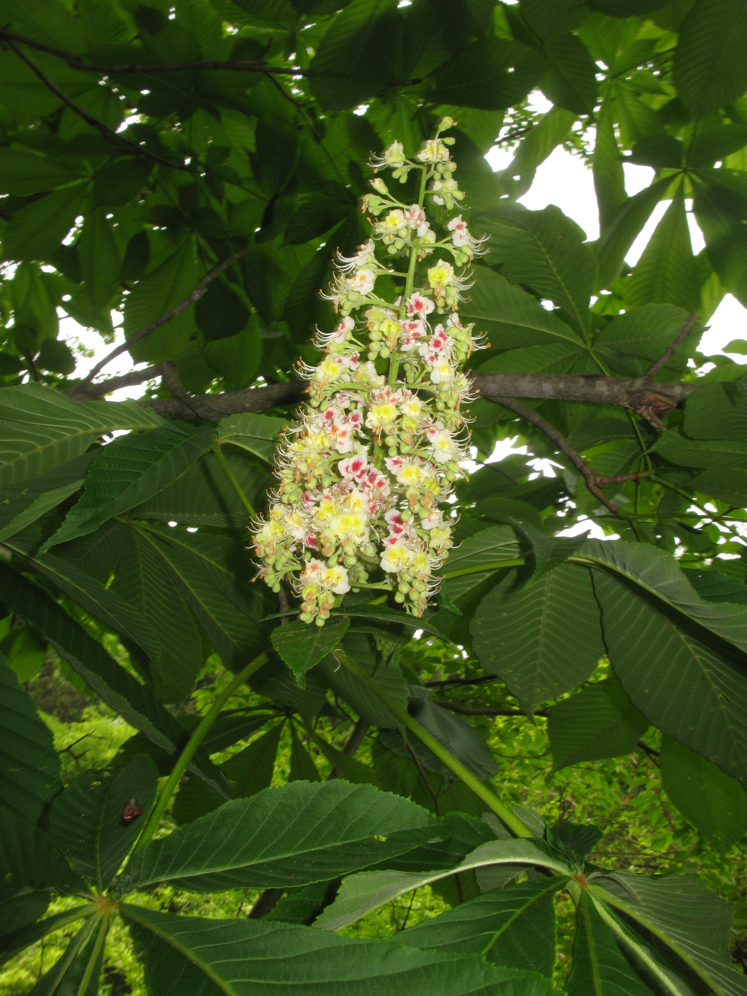 Aesculus turbinata, Aizu area, Fukushima pref., Japan